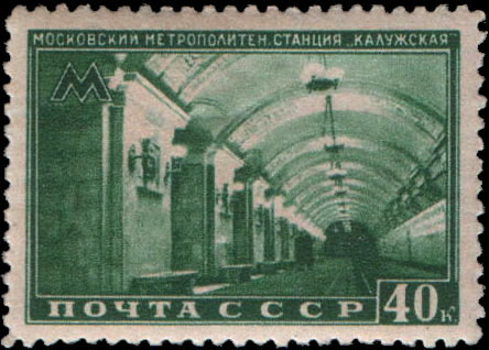 Stamp of the Soviet Union, Kaluzhskaya (Moscow Metro station), 1950, CPA 1537.